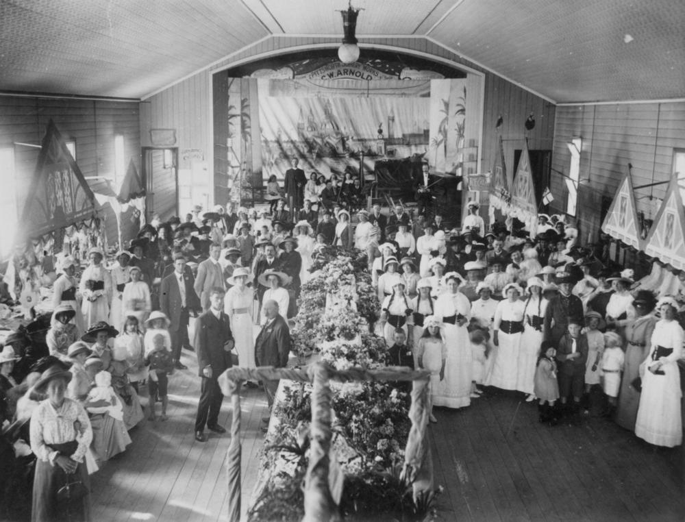 Flower show in the Assembly Hall, Pittsworth, ca. 1915 Pittsworth is a small rural community near Toowoomba, on the Darlinig Downs. It is a service centre for the surrounding farms which grow cereal crops, cotton, linseed and sunflowers. There are also beef cattle properties in the area. Pittsworth Methodist Flower Show which was held in the Assembly Hall, opposite Tatts Hotel, between 1914-1916. Mr Apted is the minister standing on the stage. This hall doubled as a picture theatre. The men in front, to the left of the flower display are Clarence Moad and Fred Dore (hand at waist). The show had a Swiss theme. (Description supplied with photograph).